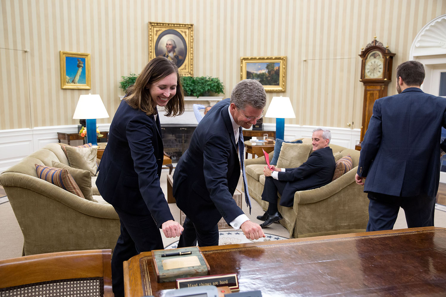 Oct. 26, 2015 "After their meeting with the President, Katie Beirne Fallon, Director of Legislative Affairs, and Shaun Donovan, Director Office of Management and Budget, knock on wood–the Resolute Desk–in hopes that the budget would pass through Congress." (Official White House Photo by Pete Souza)